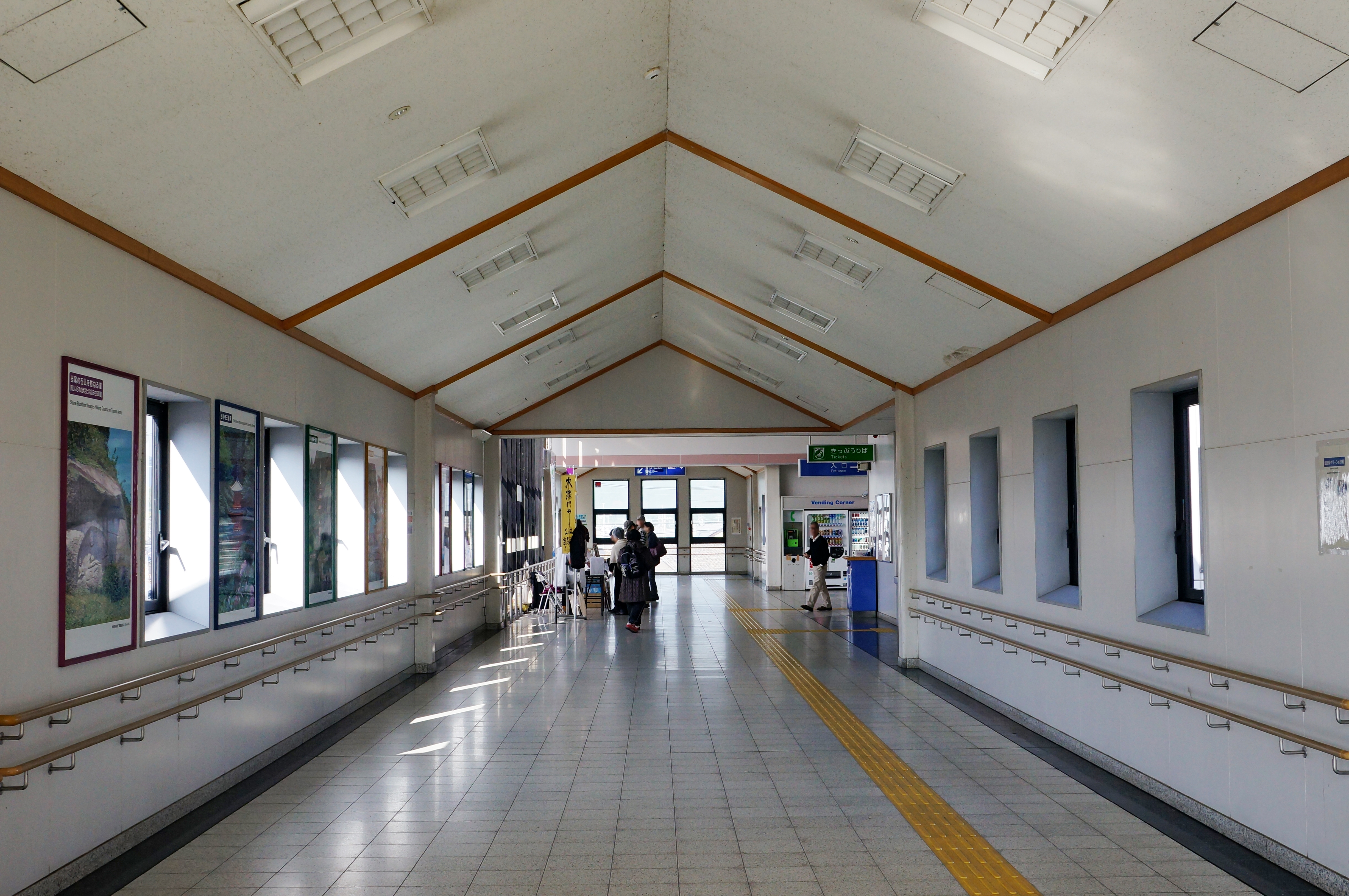 Kamo Station in Kizugawa, Kyoto prefecture, Japan